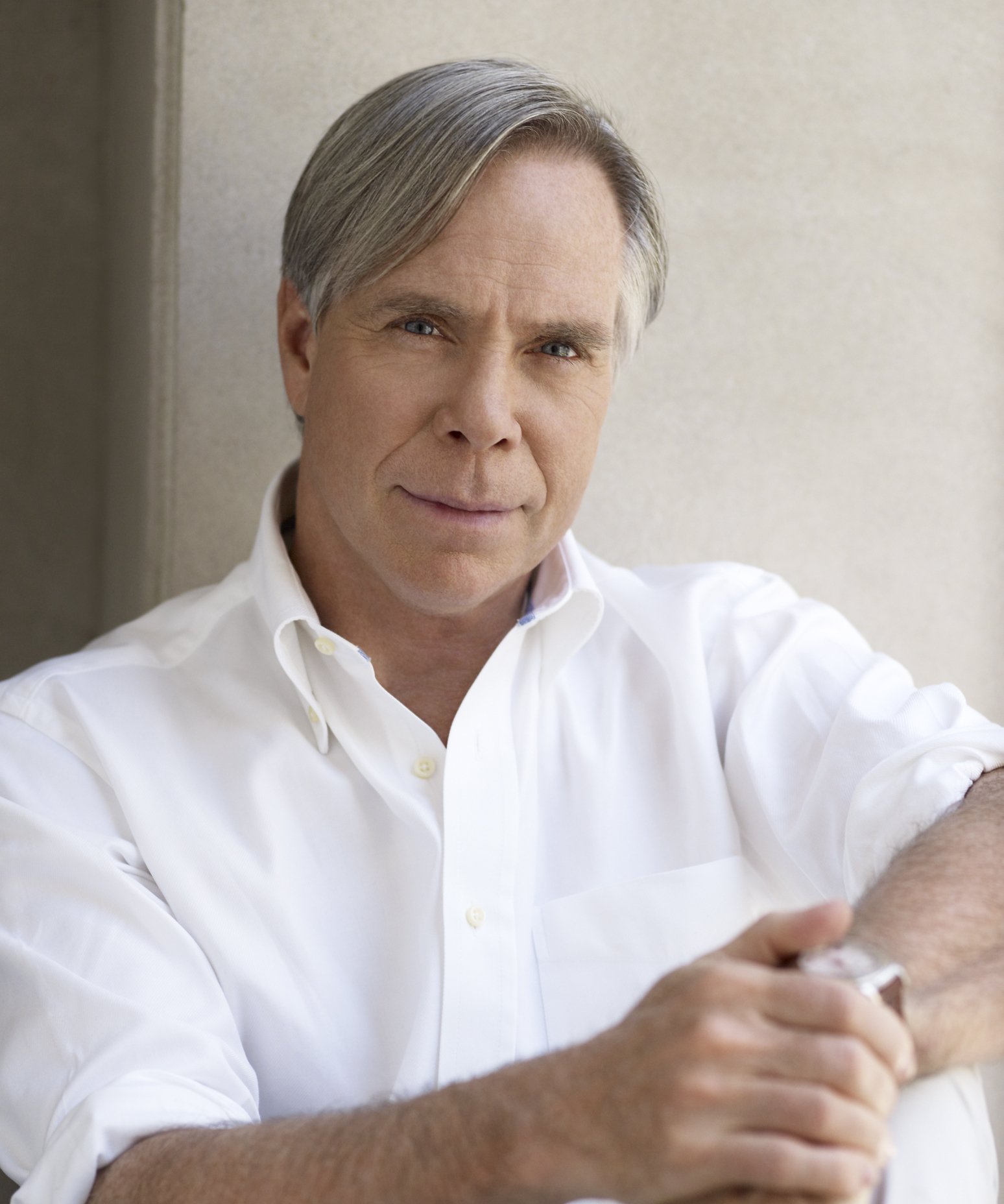 Tommy Hilfiger portrait